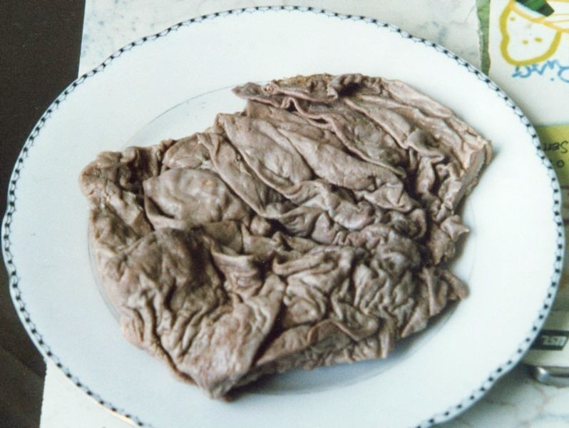 Bovine abomasum - Pre-boiled, as you can buy it in Tuscany, Italy. It serves to prepare the famous Florentine dish Lampredotto.